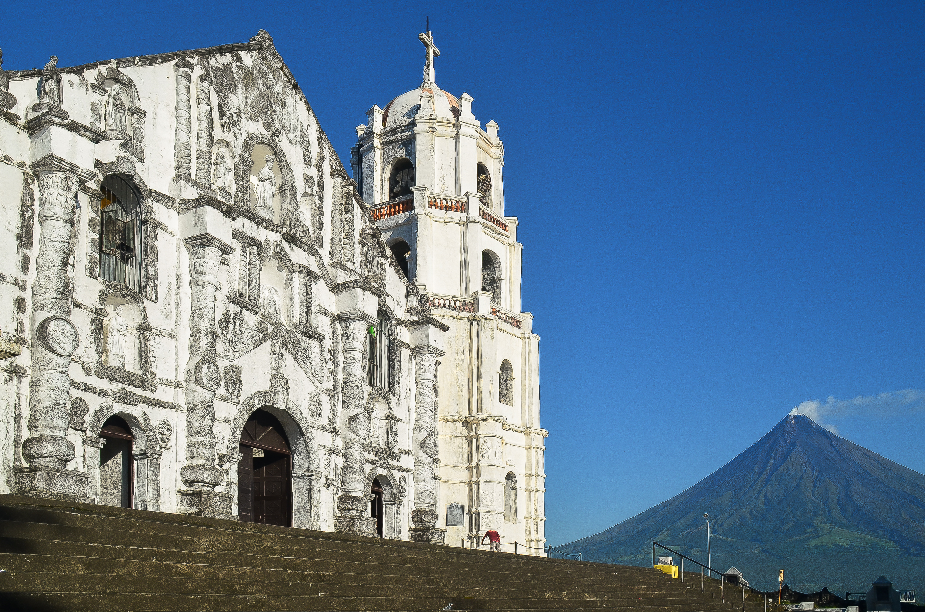 The Nuestra Señora de la Porteria (Our Lady of the Gate) Church was built by the Franciscans in 1772 atop a hill in the town of Daraga, Albay, overlooking Mayon Volcano. In 2007, the National Museum of the Philippines listed the church's eastern and western façade, belfry, and baptistry as a National Cultural Treasure.